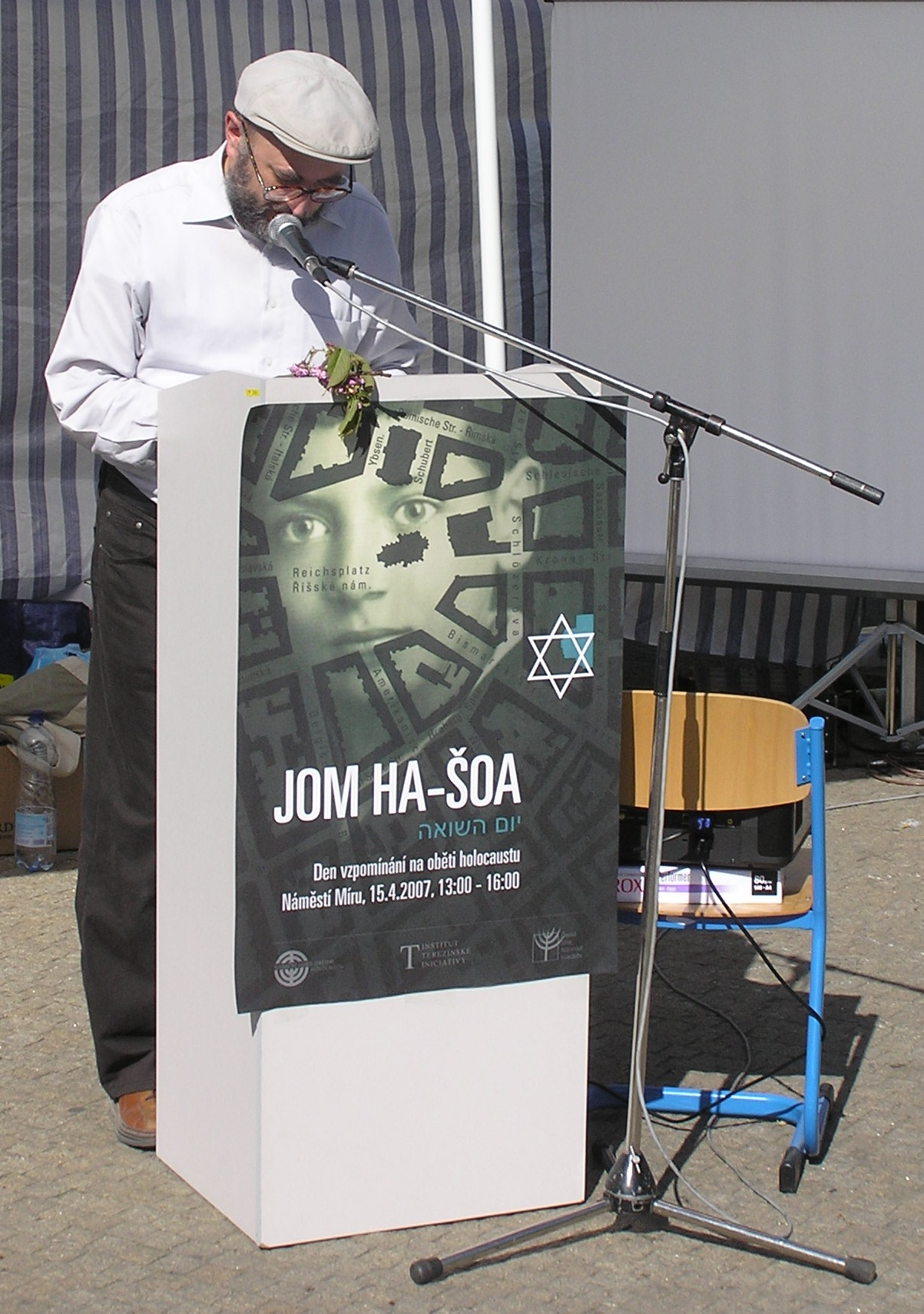 A speaker reading names of Jewish holocaust victims. Yom HaShoah, 2007-04-15, Náměstí Míru, Prague.